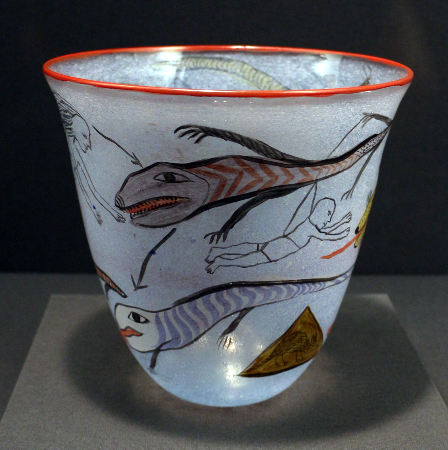 Glassware in the Detroit Institute of Arts